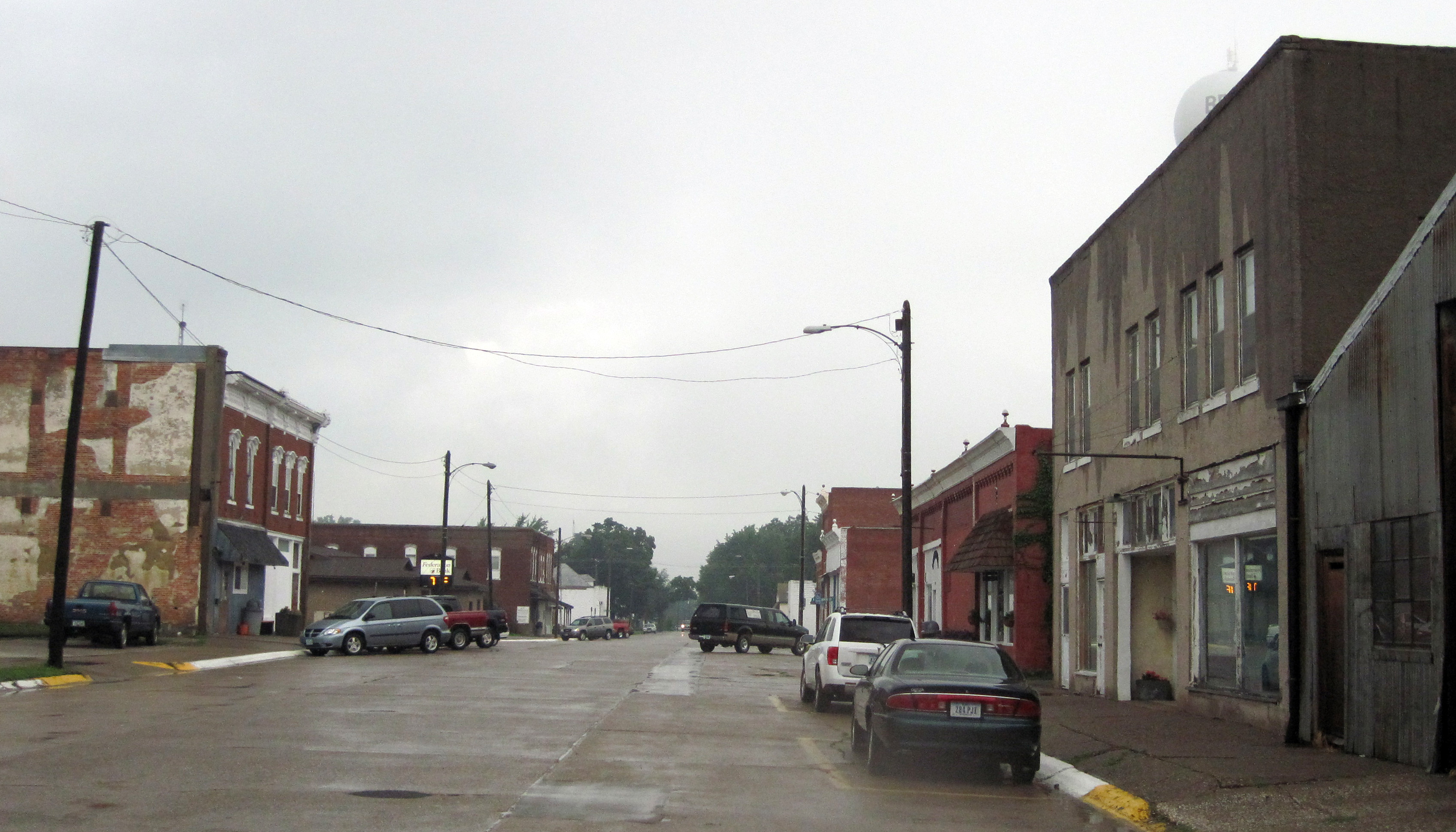 Brighton